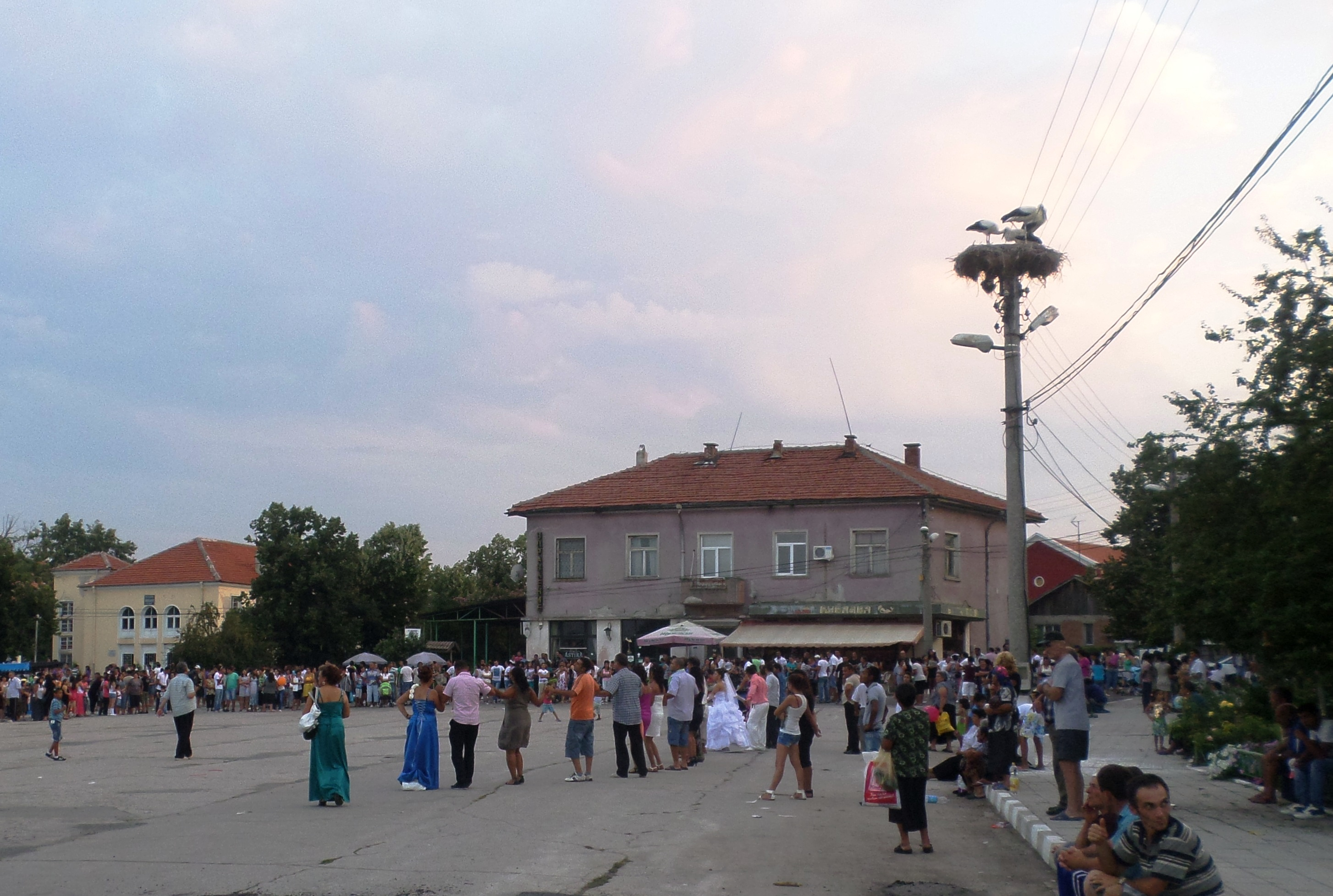 The main square of Yabalkovo (Haskovo, Bulgaria)